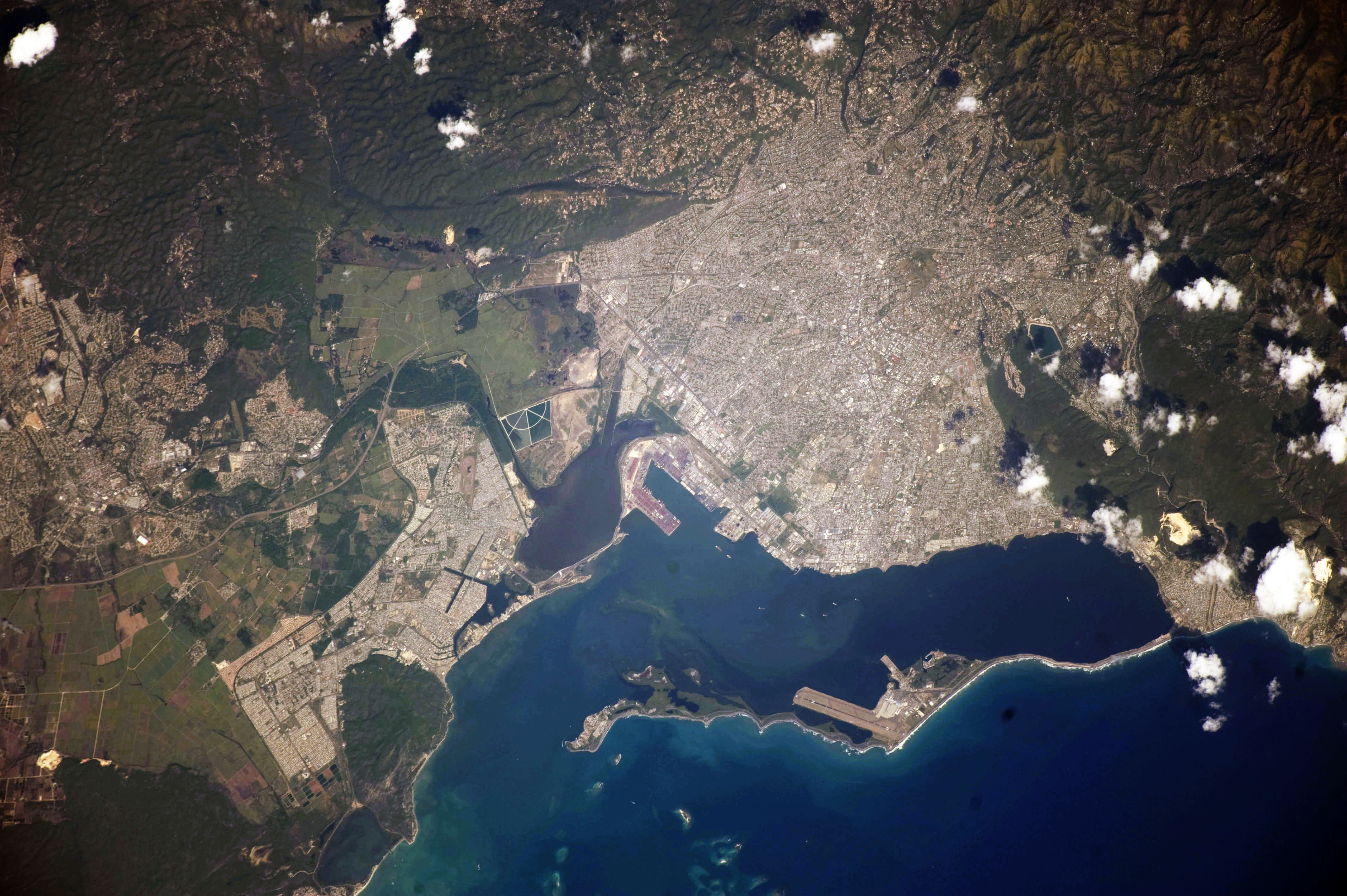 Astronaut Photo of Kingston, Jamaica taken from the International Space Station (ISS) during Expedition 22 on January 22, 2010.